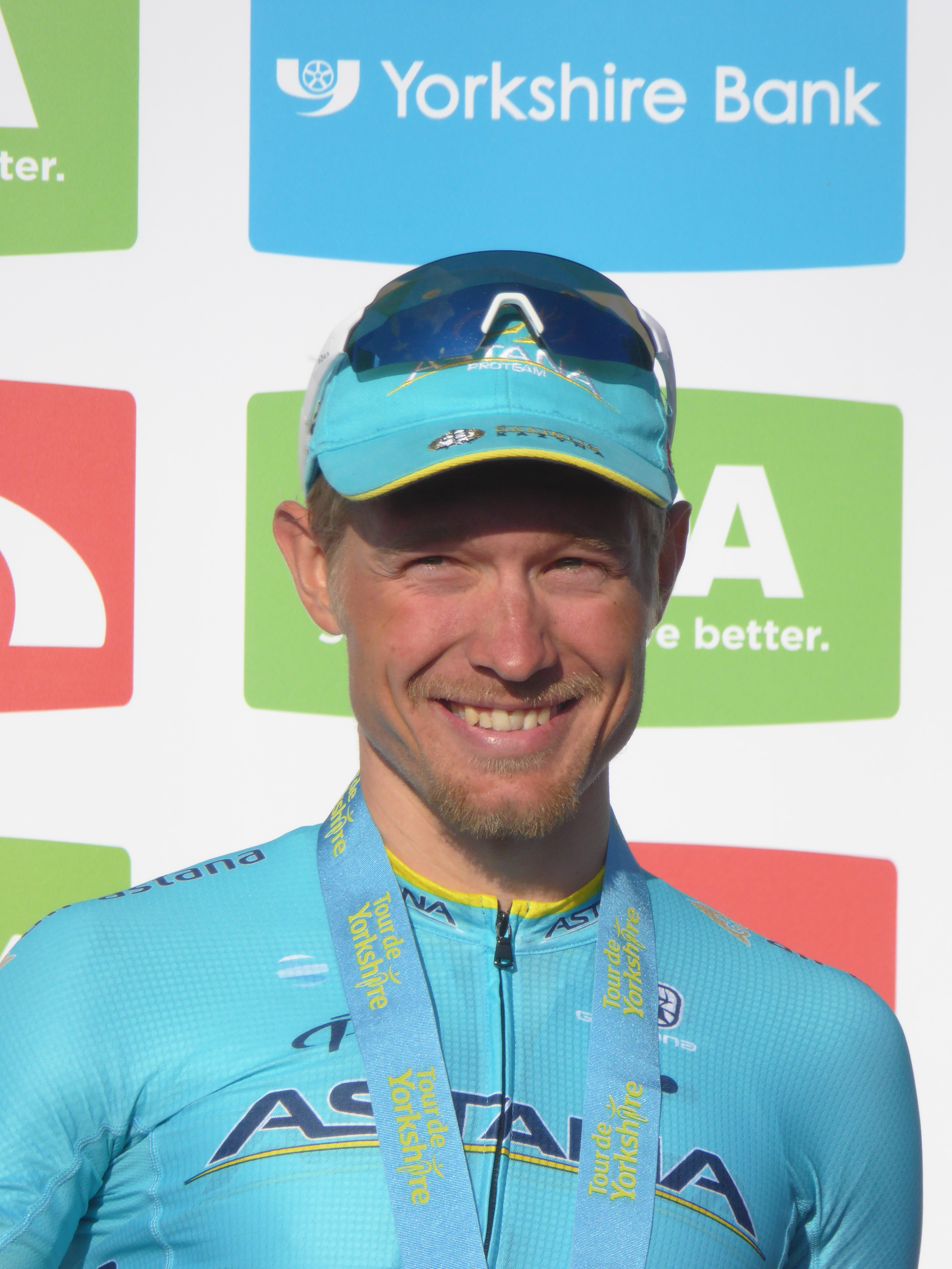 The winner of Stage 2 of the 2018 Tour de Yorkshire, Magnus Cort of the Astana team.